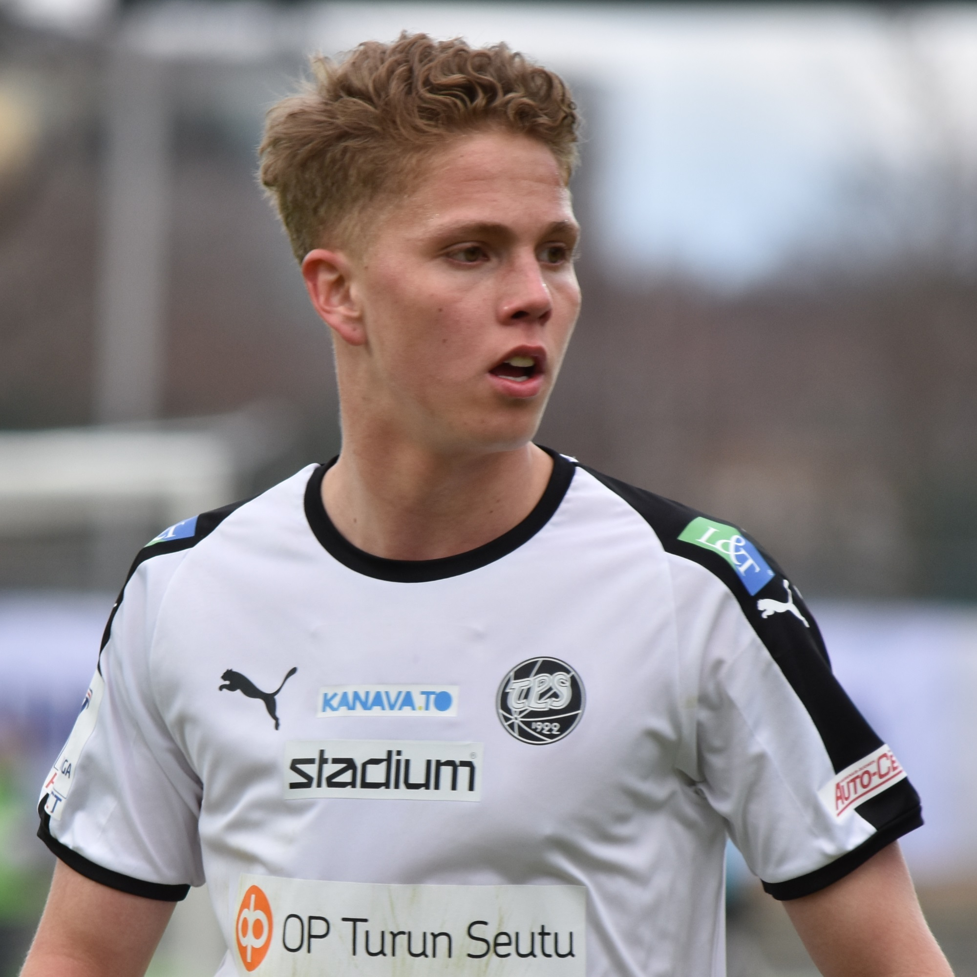 Football player Onni Valakari (TPS)